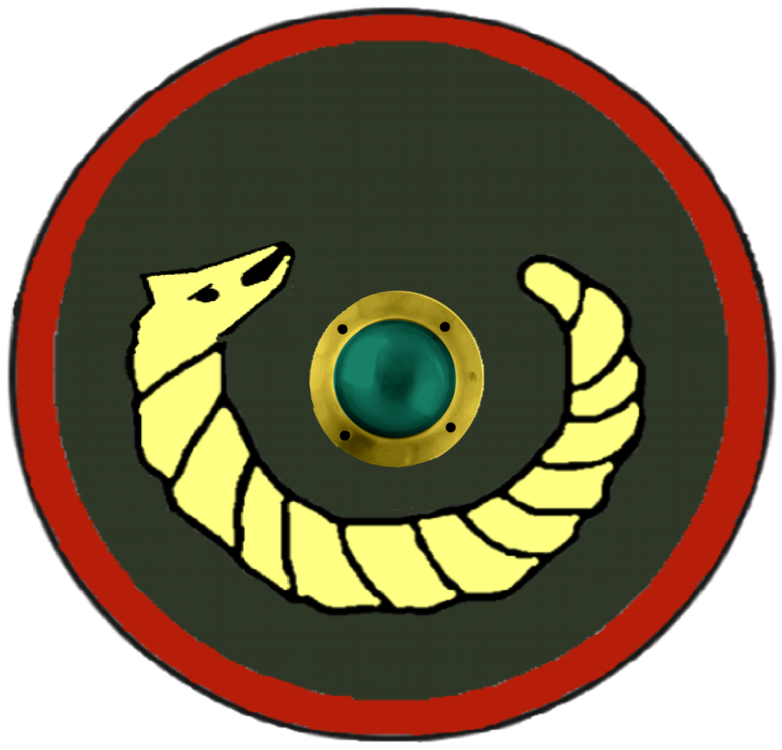 Shield pattern o.t. Menapii seniores, a legiones comitatenses unit in the Magister Peditum's infantry roster, Notitia Dignitatum, 5th century (Bodleian Manuscript).